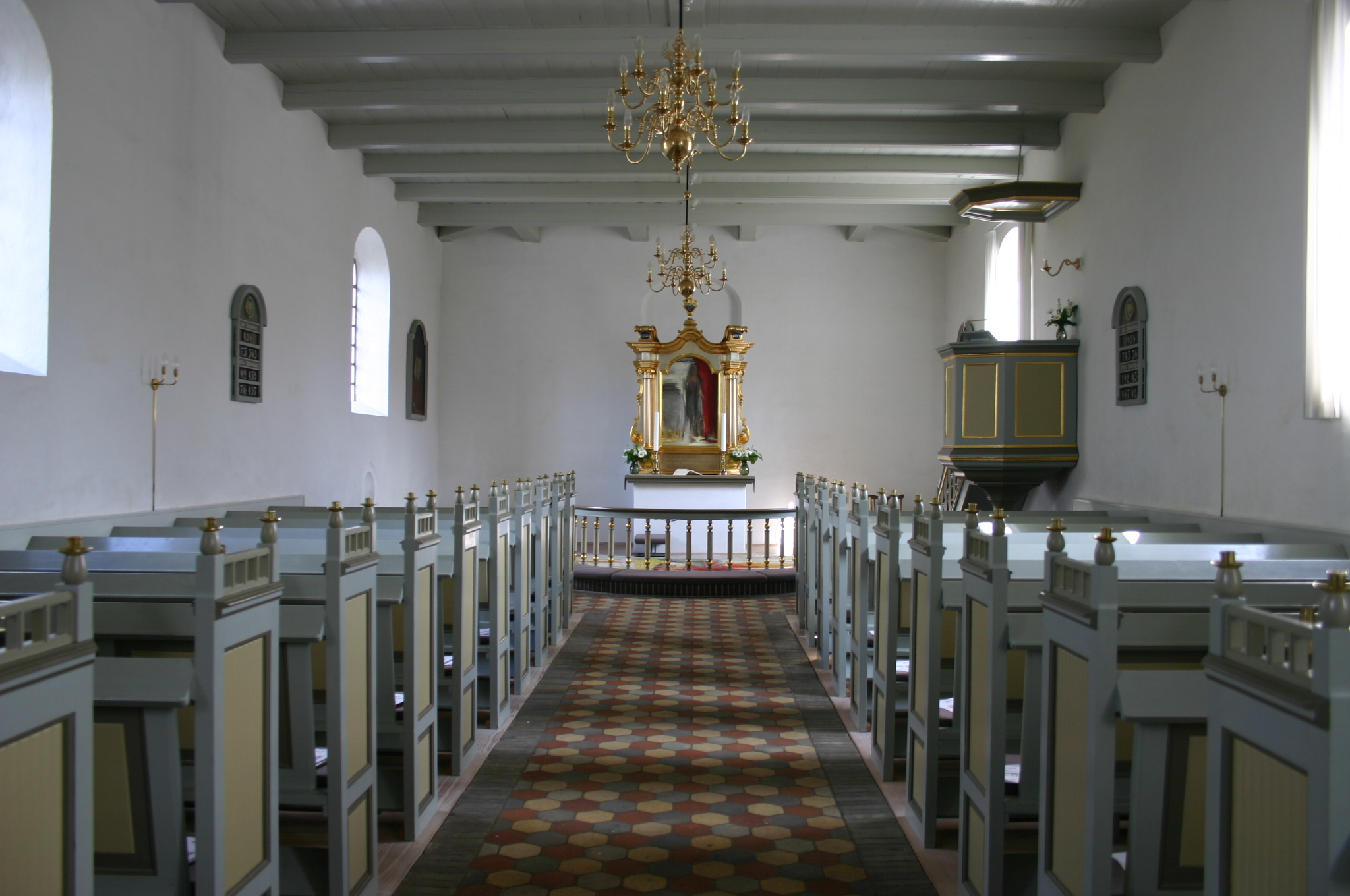 The inner of Frederiks Church, Mid Jutland, Denmark. Frederiks Kirkes indre (Viborg Kommune